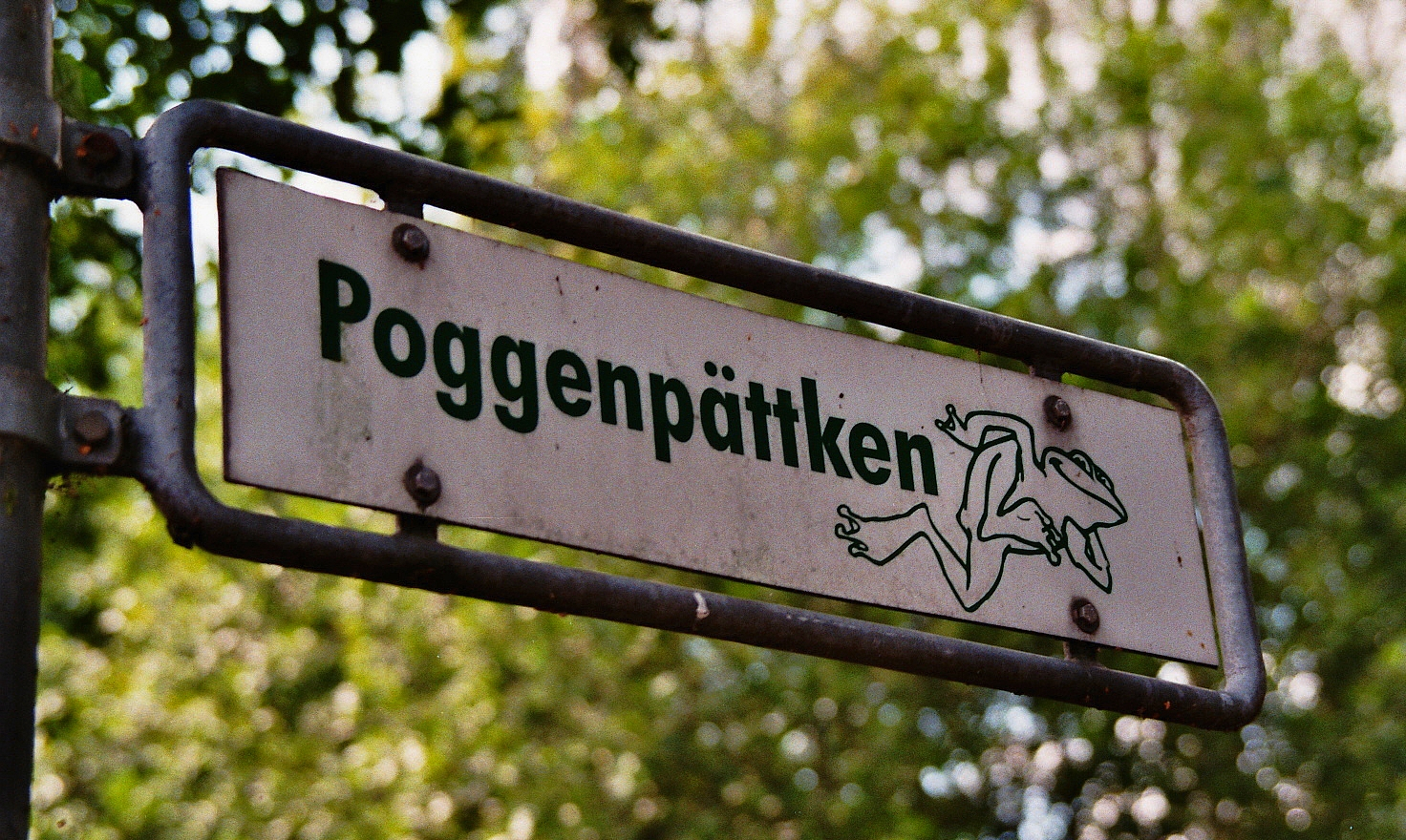 Sign at the entrance to the Poggenpättken, a footpath in Recke, Kreis Steinfurt, North Rhine-Westphalia, Germany.